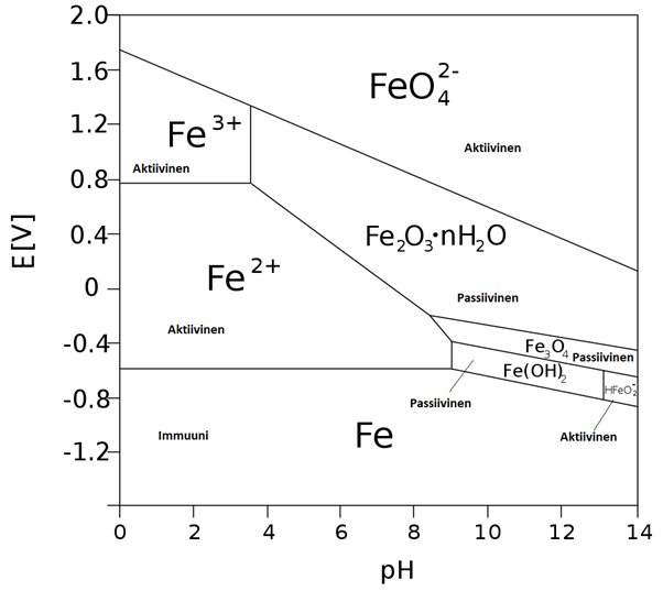 Raudan Pourbaix-diagrammi